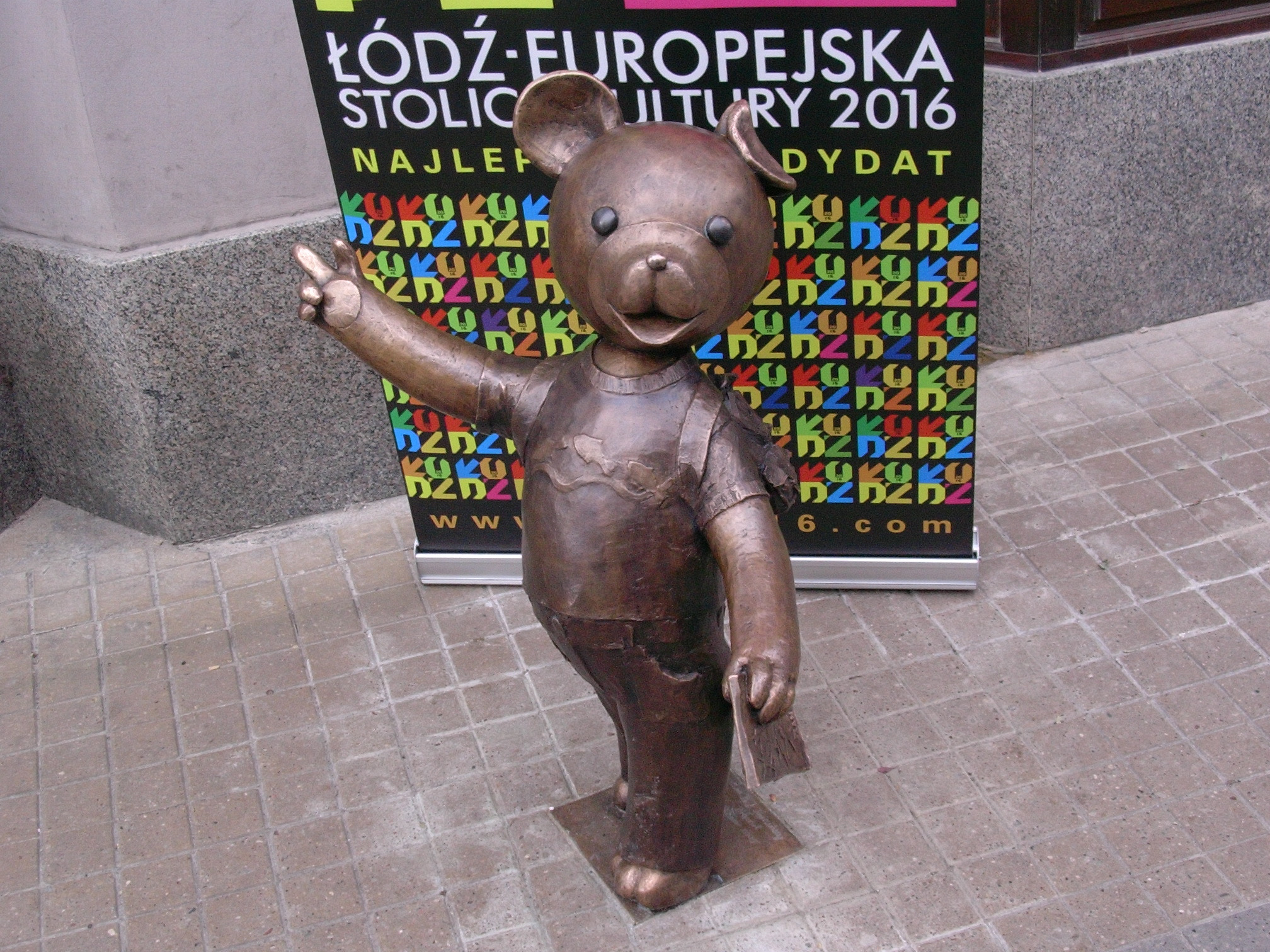 City of Lodz monument of Mis Uszatek - 87 Piotrkowska St.